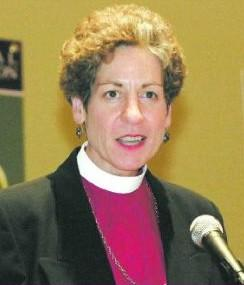 Presiding Bishop of ECUSA